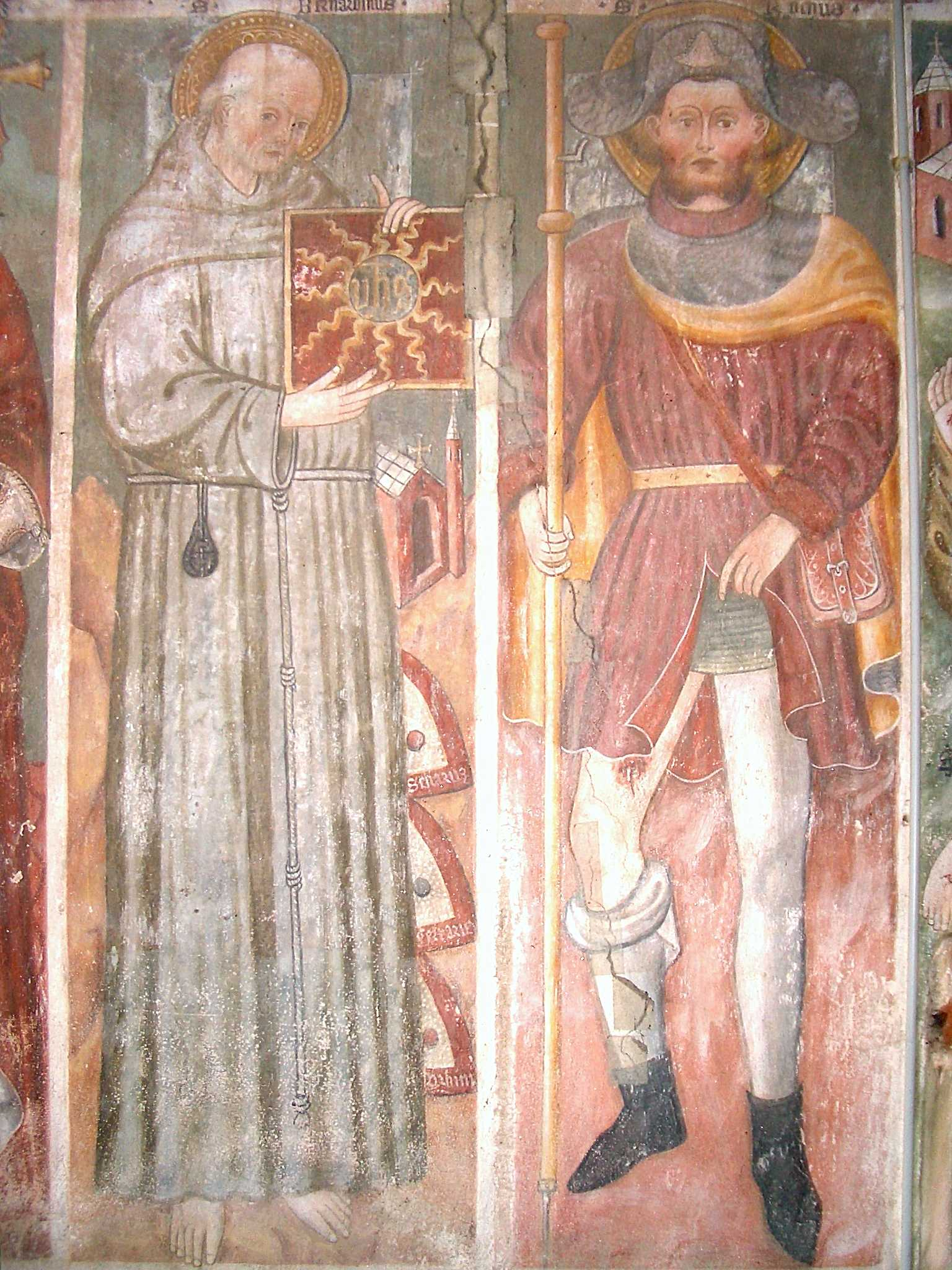 Atelier of Giovanni de Campo, St. Bernardino da Siena and St. Roch , fresco, XV century, Caltignaga, Chiesa dei Santi Nazzaro e Celso (Sologno)